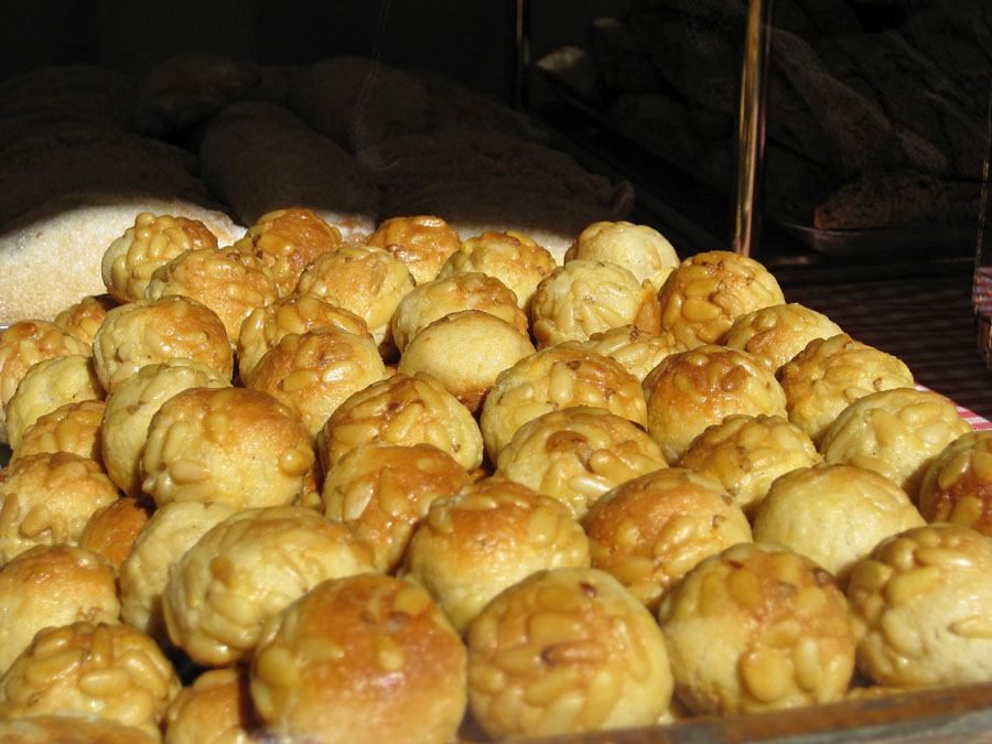 Panellets de Morella, els Ports, País Valencià. Panellets, typical Catalan Christmas sweets, in Morella, Valencian Country.